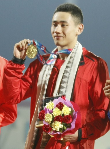 Athletes during 22nd Asian Athletics Championships in Bhubaneswar.